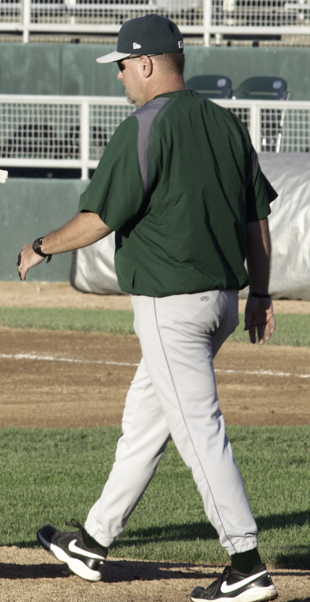 Willie Blair of the Fort Wayne TinCaps makes a mound visit during a game against the Lansing Lugnuts in 2011.